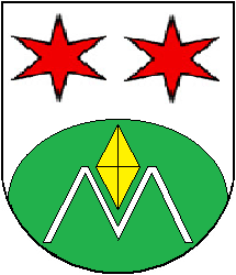 Coat of arms of Mundaun, Canton of Graubünden, Switzerland